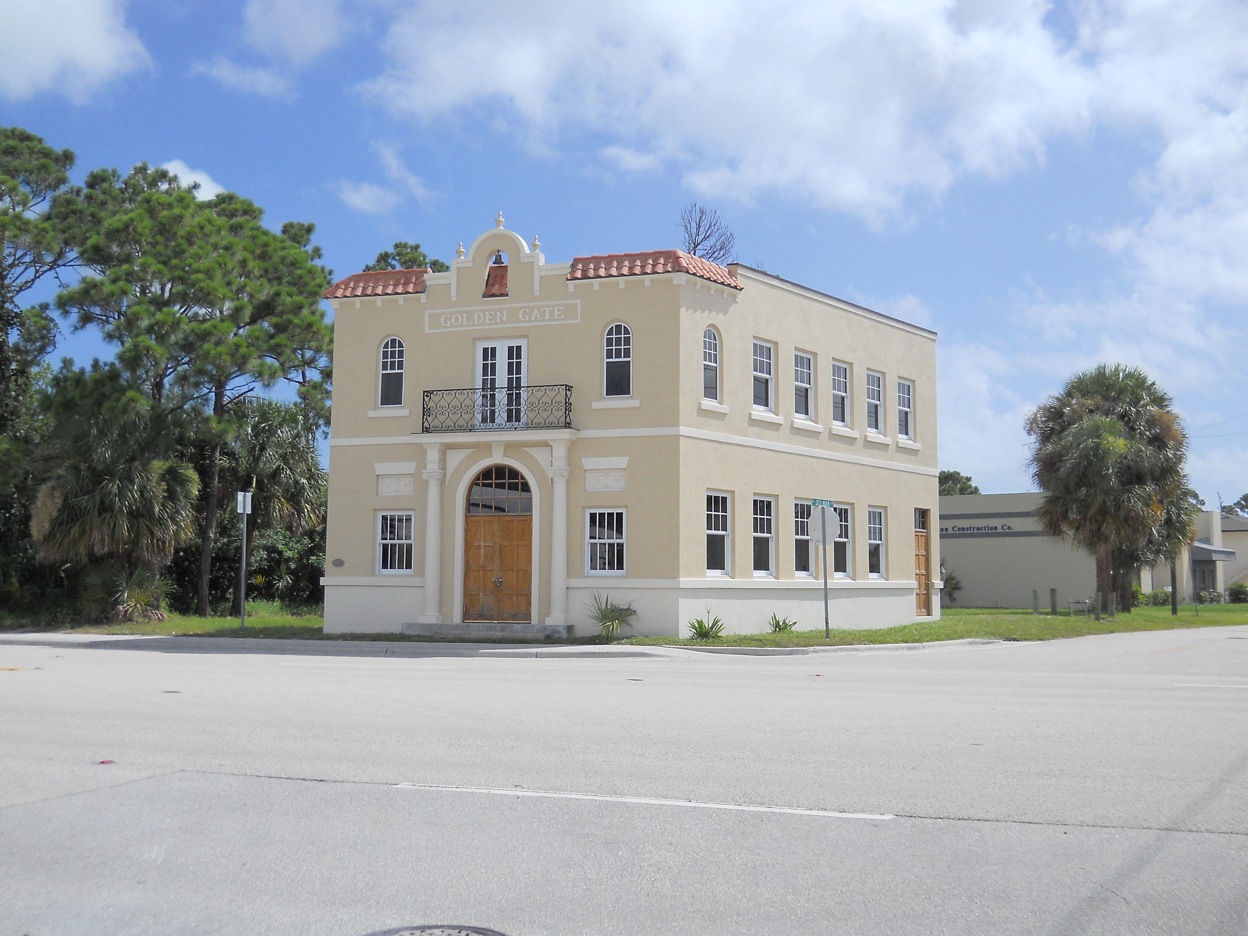 Golden Gate Building, on Florida State Road A1A at 3225 South East Dixie Highway (corner of South East Delmar Street) in the unincorporated community of Golden Gate south of Stuart in Martin County, Florida: Front (west) and Side (south) facades